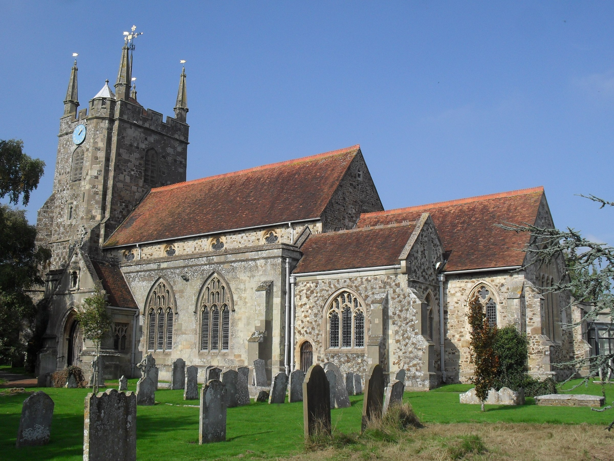 St Mary the Virgin Church, Hailsham, Wealden, East Sussex, England. The ancient parish church of the market town of Hailsham. Listed at Grade I by English Heritage (IoE Code 295158)